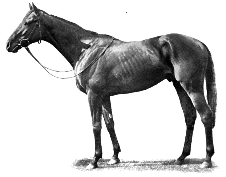 The Thoroughbred stallion Aboyeur in 1913 after winning the Epsom Derby.